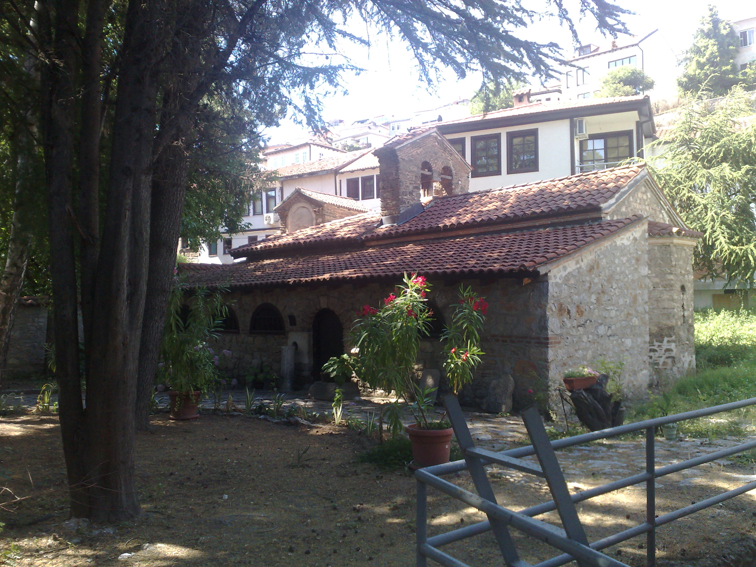 St. Nicholas Bolnicki church in Ohrid, Macedonia